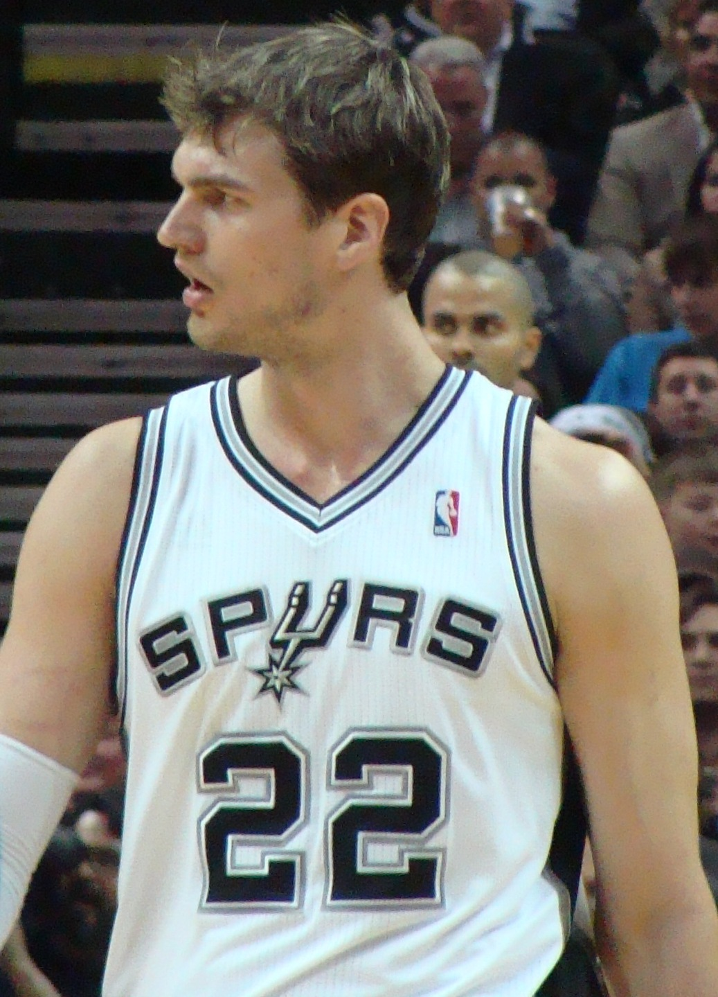 Tiago Splitter of the San Antonio Spurs, during the Spurs-Nuggets match on 12-22-2010 in San Antonio, TX.